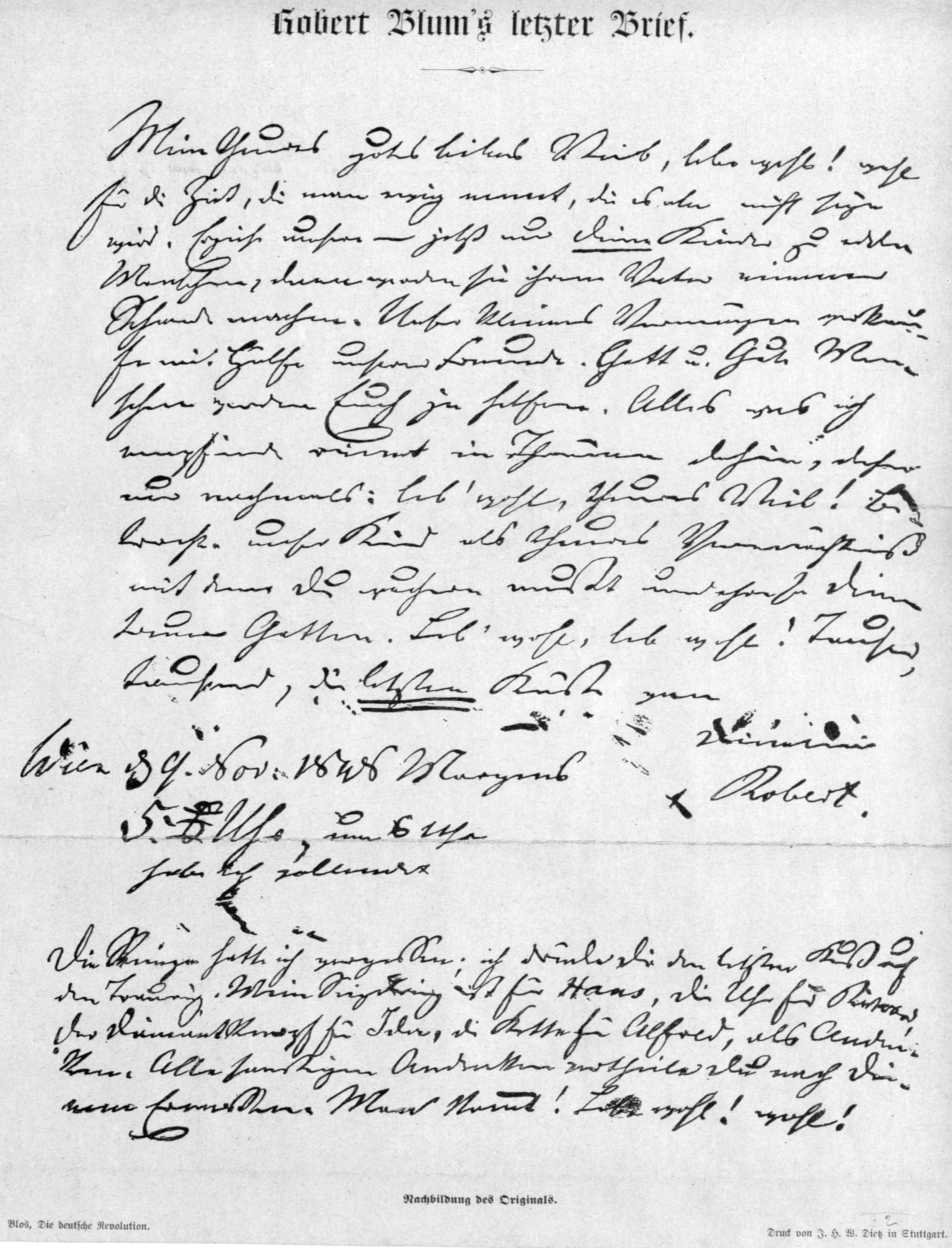 Image extracted from page 465 of Die deutsche Revolution. Geschichte der deutschen Bewegung von 1848 und 1849 ... Illustrirt, etc', by BLOS, Wilhelm. Original held and digitised by the British Library. Copied from Flickr. Note: The colours, contrast and appearance of these illustrations are unlikely to be true to life. They are derived from scanned images that have been enhanced for machine interpretation and have been altered from their originals.